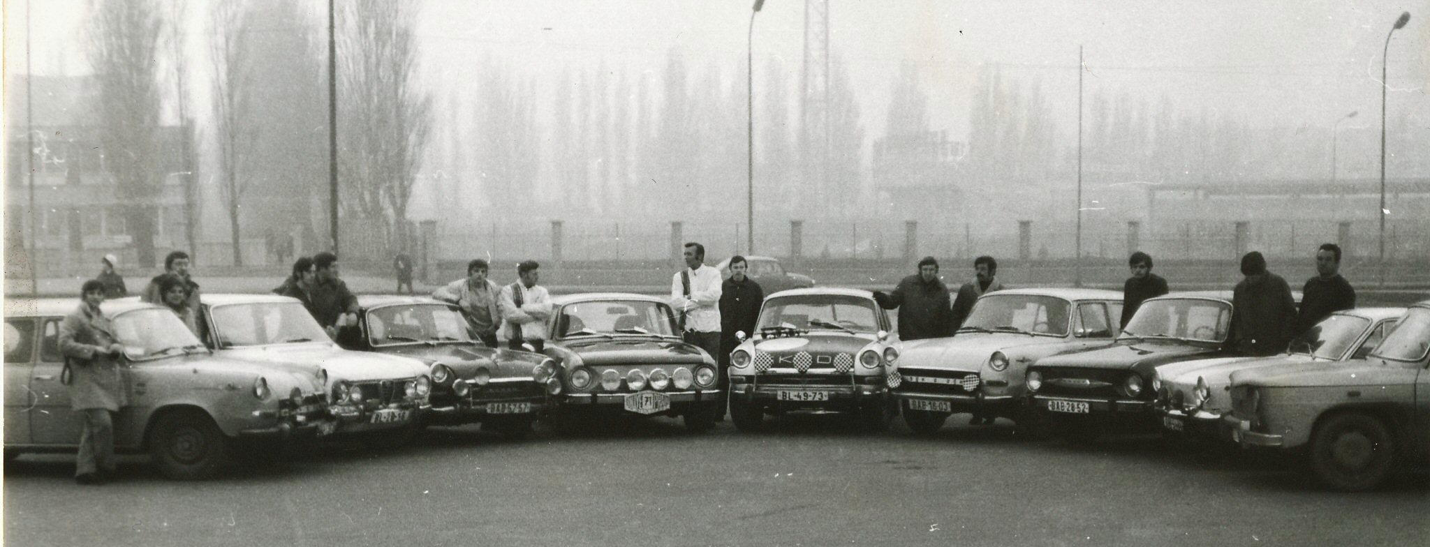 Free License